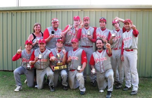 The victorious Redcliffe Padres team after their 11-4 defeat of the Pine Hills Lightning in the inaugural South Queensland Baseball League A-Grade, part of the Greater Brisbane League 2009-10.